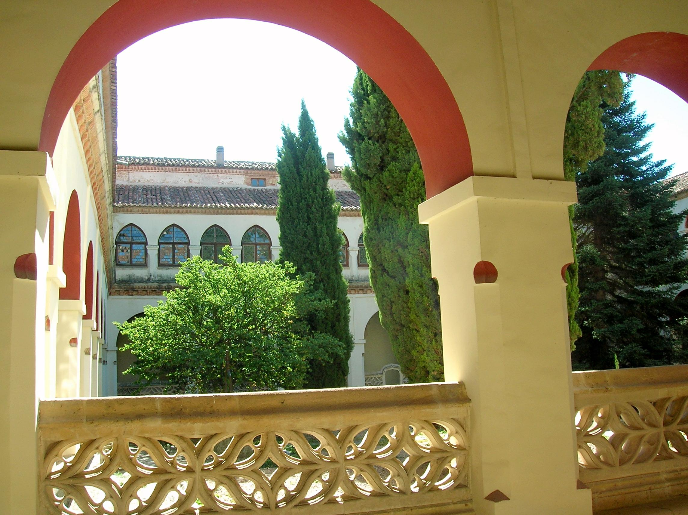 Claustro del Monasterio de Santa María del Parral, Segovia (España)